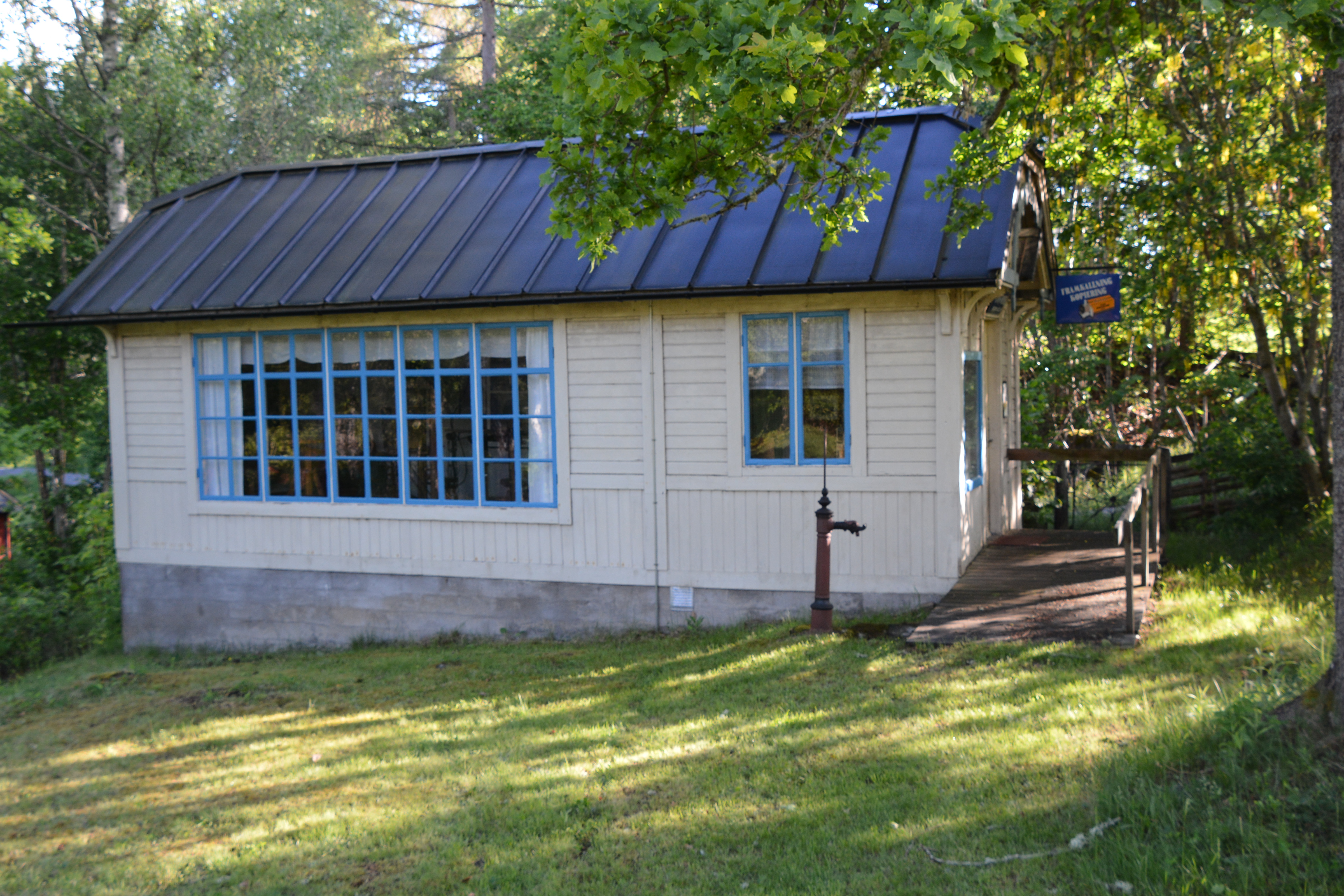 Nelsons fotoateljé i Virserums hembygdspark